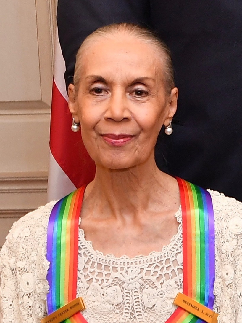 The 2017 Kennedy Center Honorees James Todd Smith "LLCoolJ", Lionel Richie, Carmen de Lavallade, Norman Lear and Gloria Estefan pose for a photo at the Kennedy Center Honors Dinner at the U.S. Department of State in Washington, D.C. on December 2, 2017. [State Department Photo/ Public Domain]